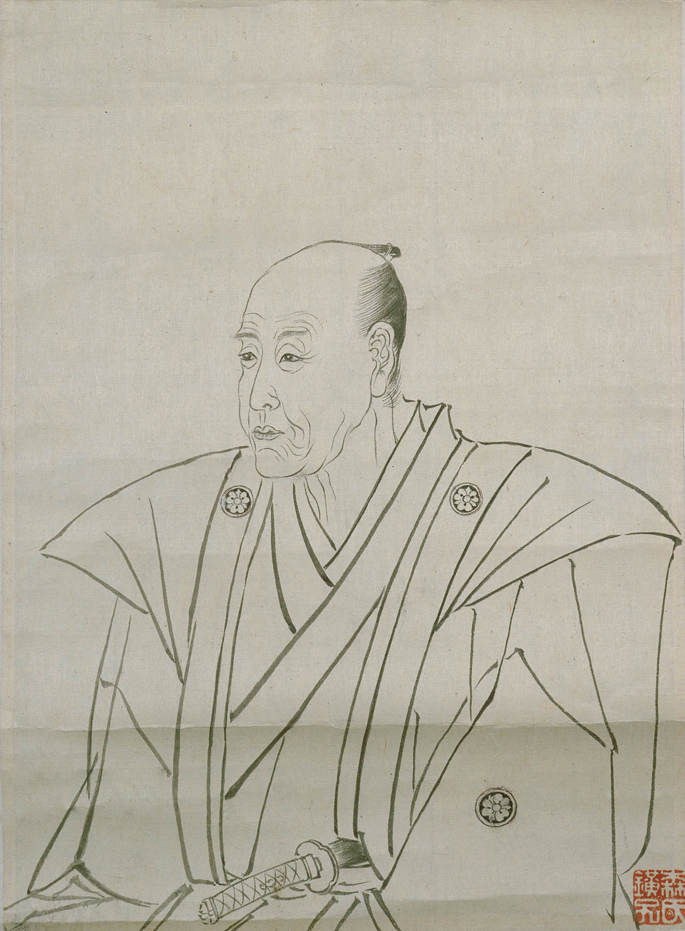 Aoki Konyo